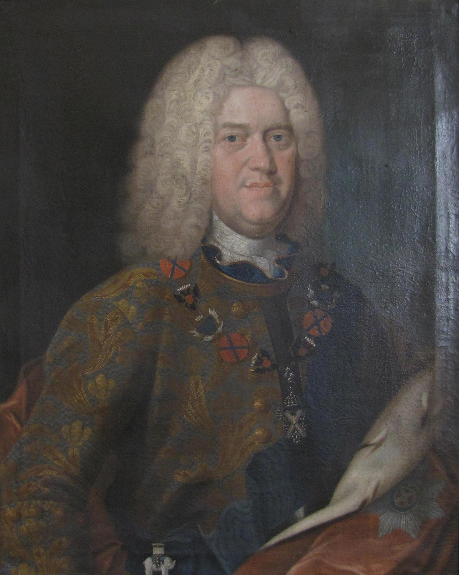 Portrait of Christian Ludwig II, Duke of Mecklenburg-Schwerin (1683-1756)